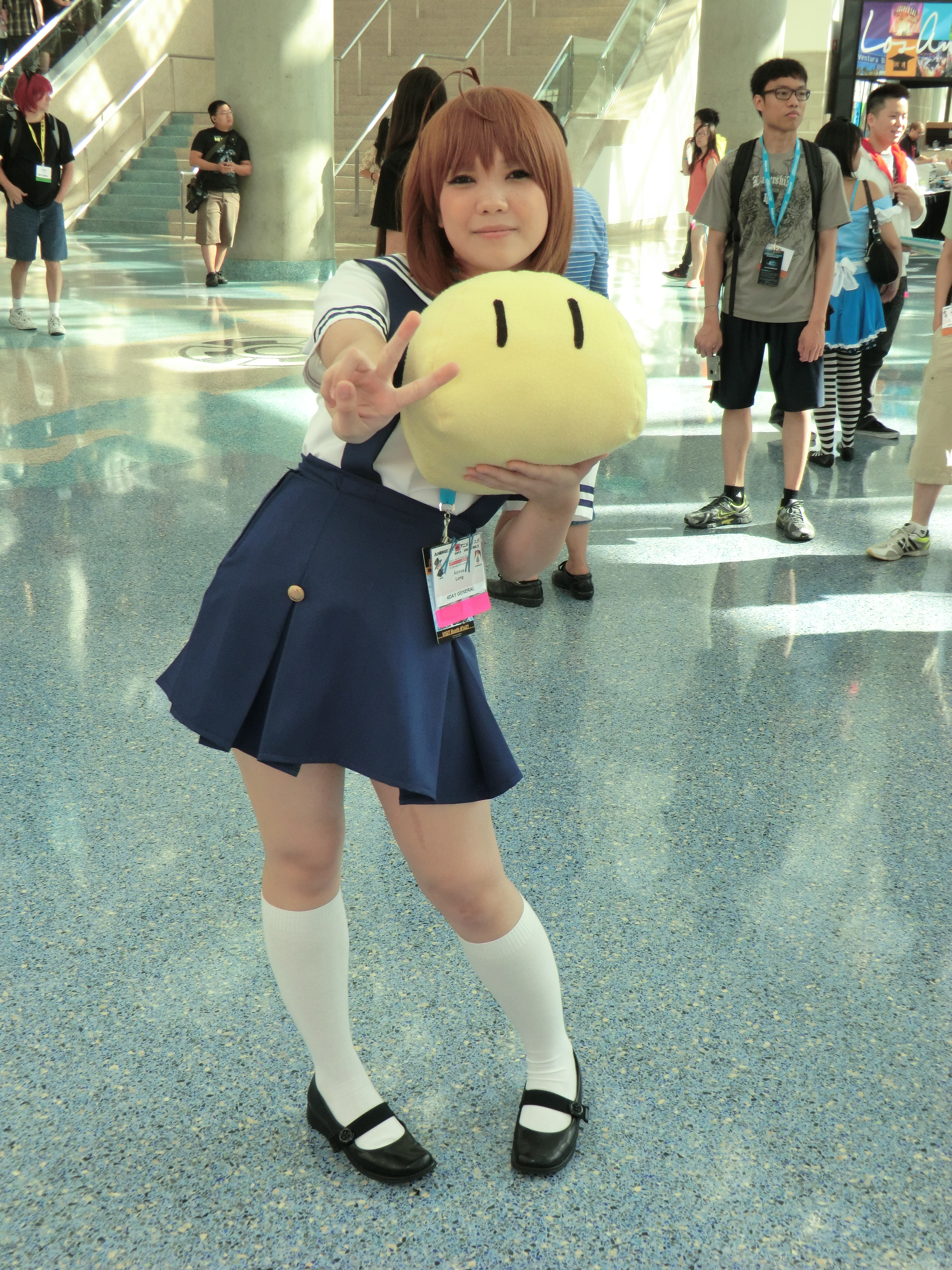 Nagisa Furukawa cosplayer at Anime Expo 2012.